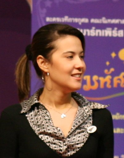 Tanyares Ramnarong (Engtrakul), a Thai actress.